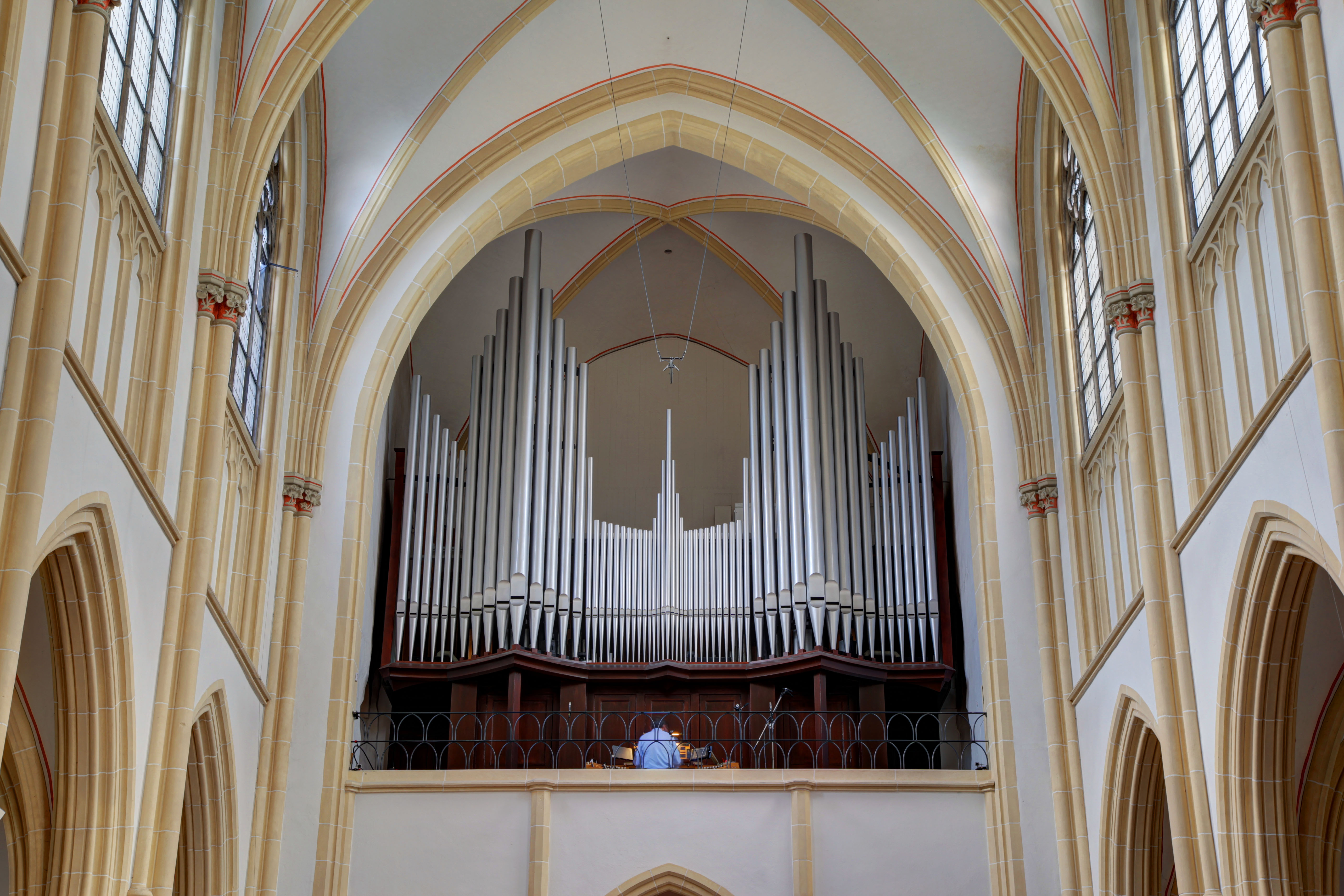 St. Joseph Münster organ